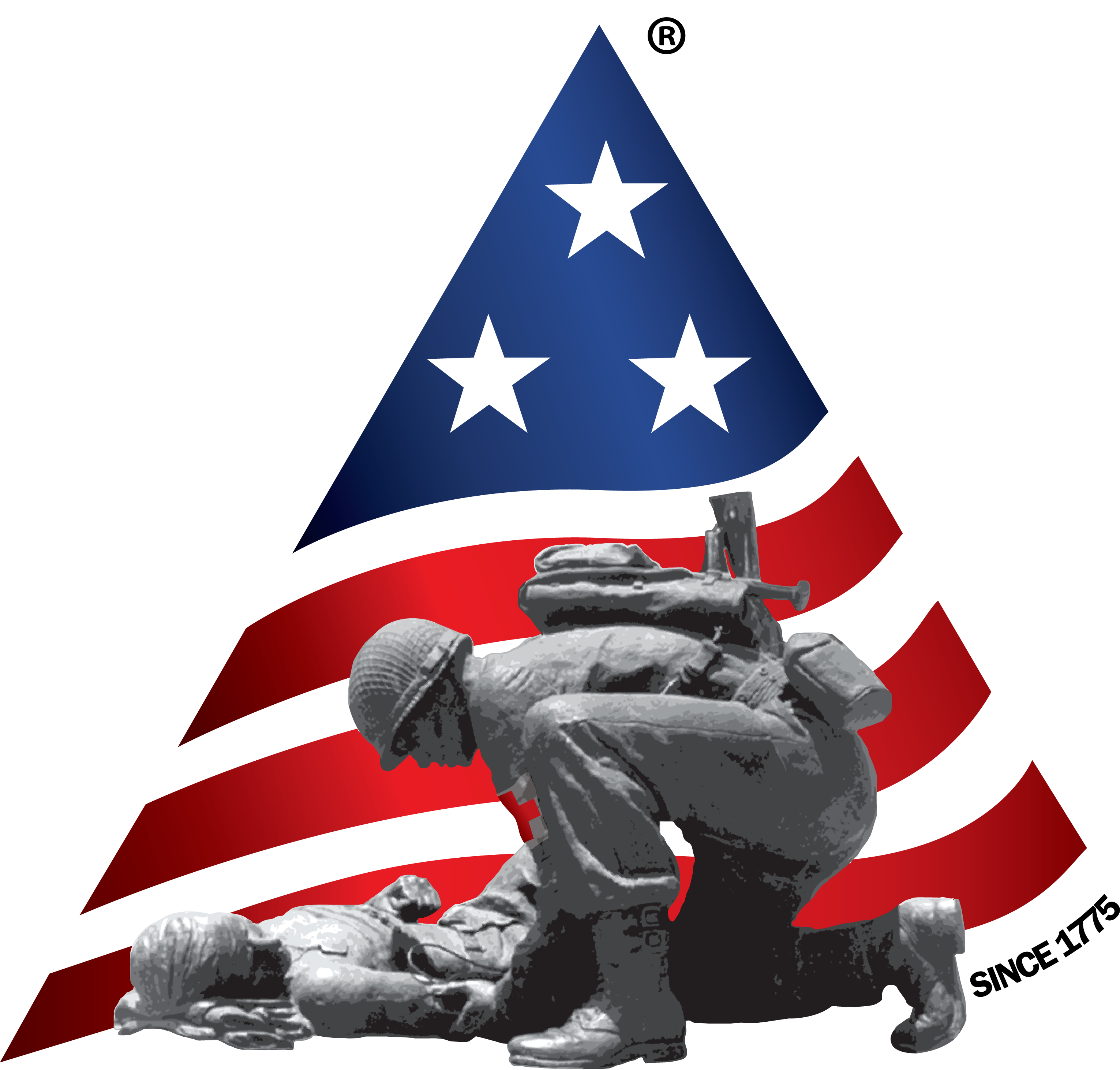 Army Medicine logo. High resolution, transparent background.